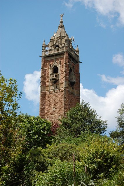 Cabot Tower, Bristol, England